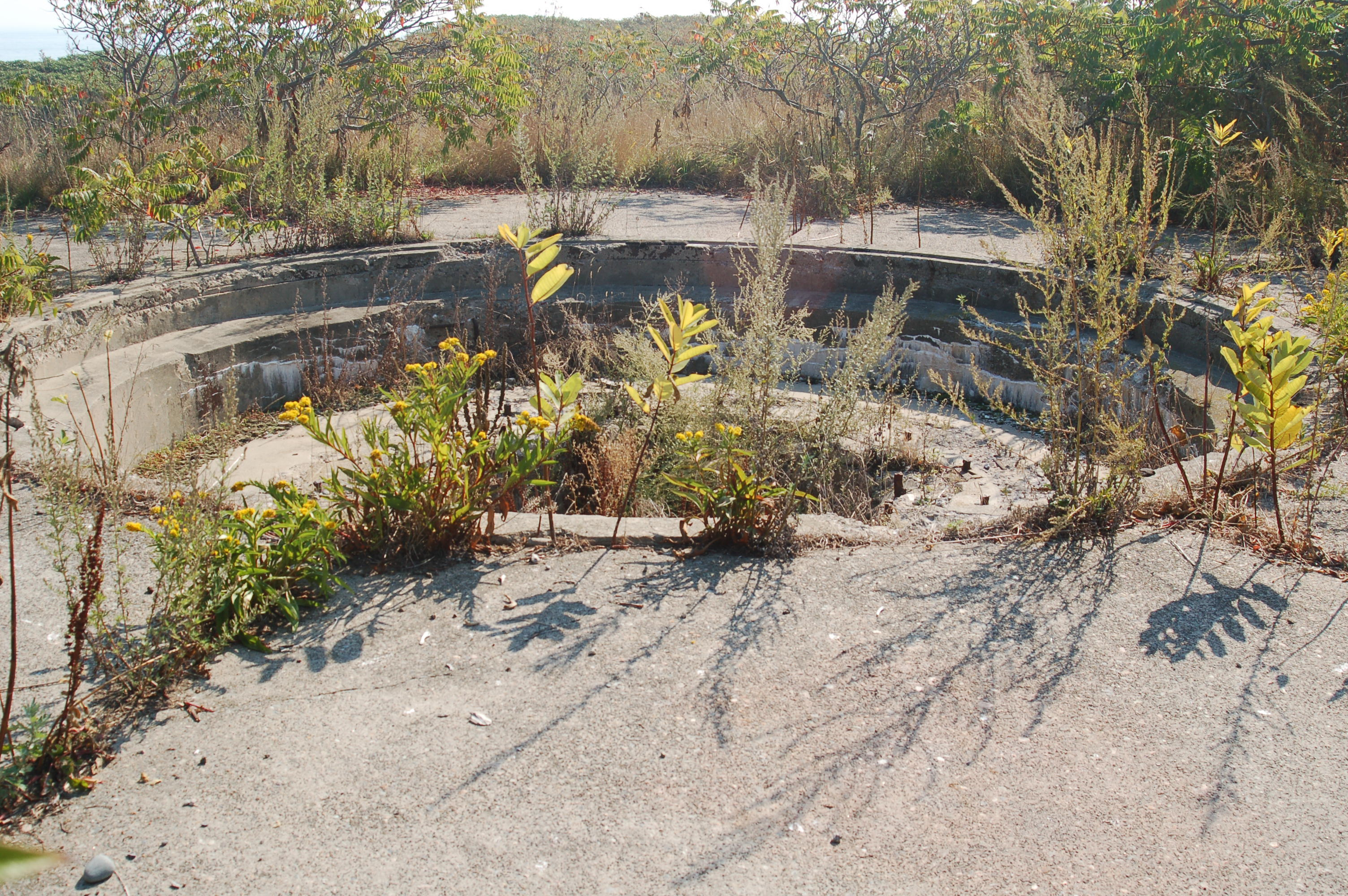 Gun number 2 of Battery Jewell, Outer Brewster Island, Mass, USA